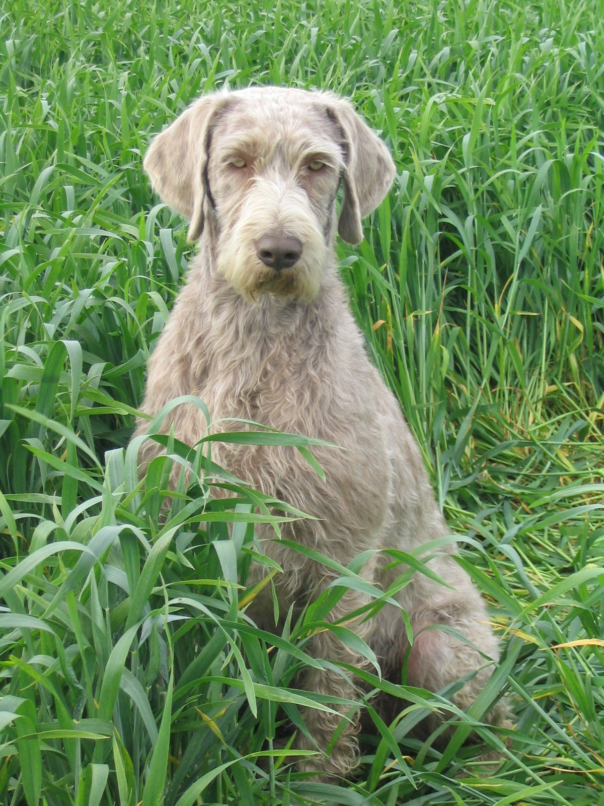 Brita z Rúženice, Slovakian Wire-haired Pointing Dog